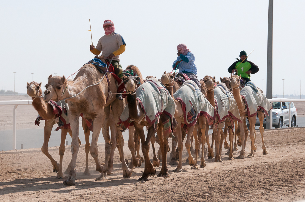 Training at the camel race track in Al Shahaniya, Qatar.